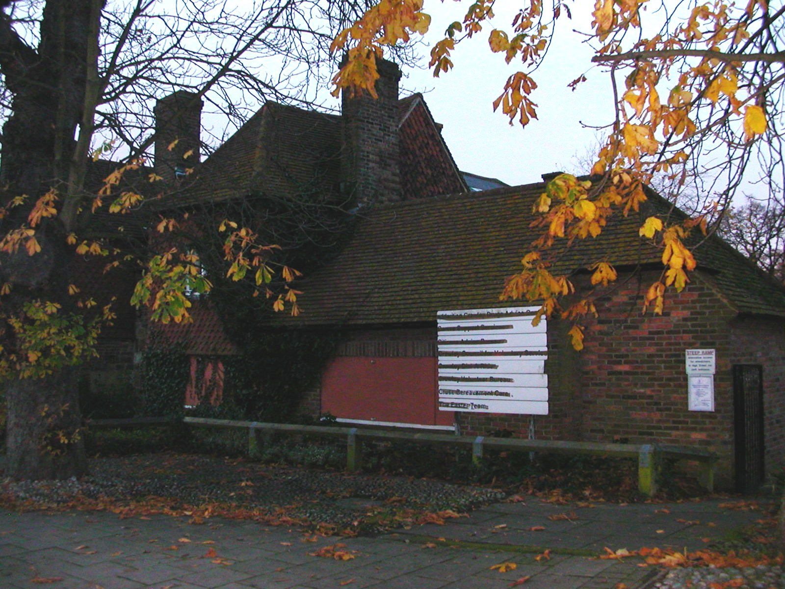 The south face of Tree House, 103 High Street, Crawley, West Sussex, England. The oldest building in Crawley town centre, and the former manor house. Now disused, but still owned by Crawley Borough Council. Timber-framed with brick exterior. Built in the early 14th century; several extensions since then. Listed at Grade II by English Heritage (ref #363351)